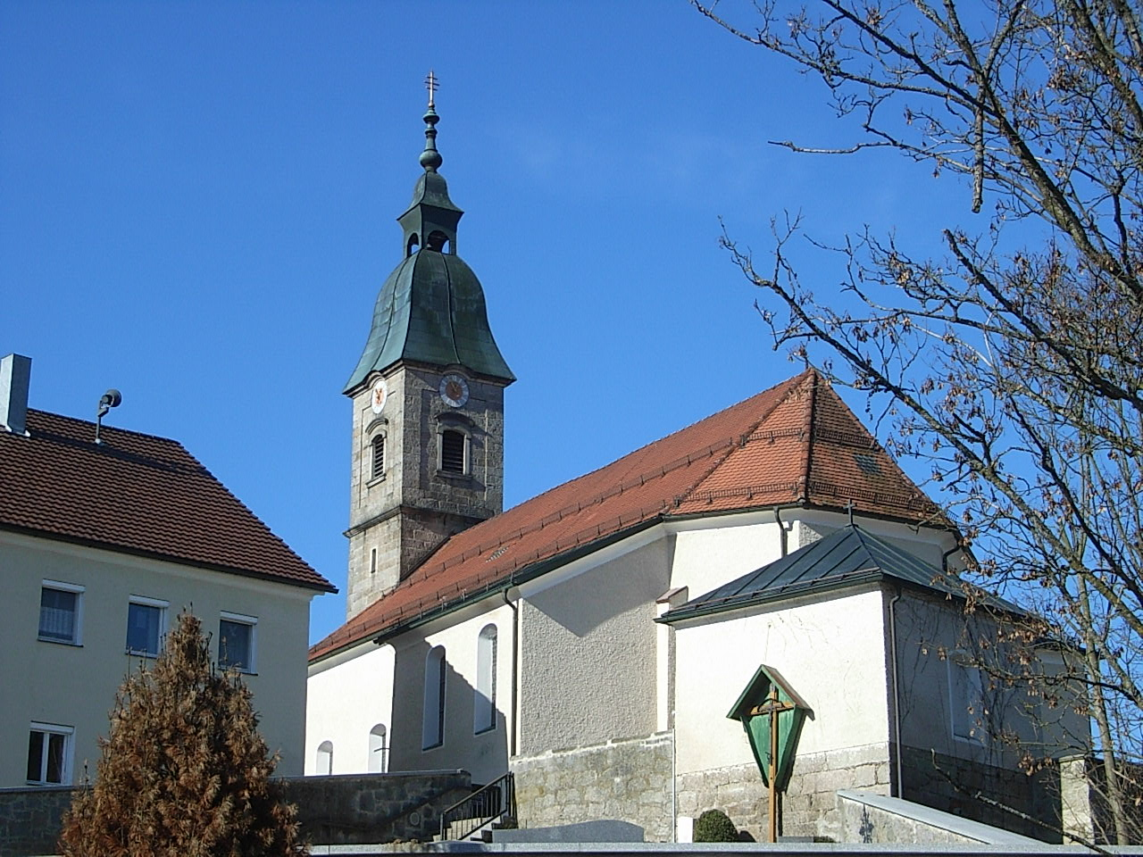 Zenting, St Jacob Parish Church from south-east.